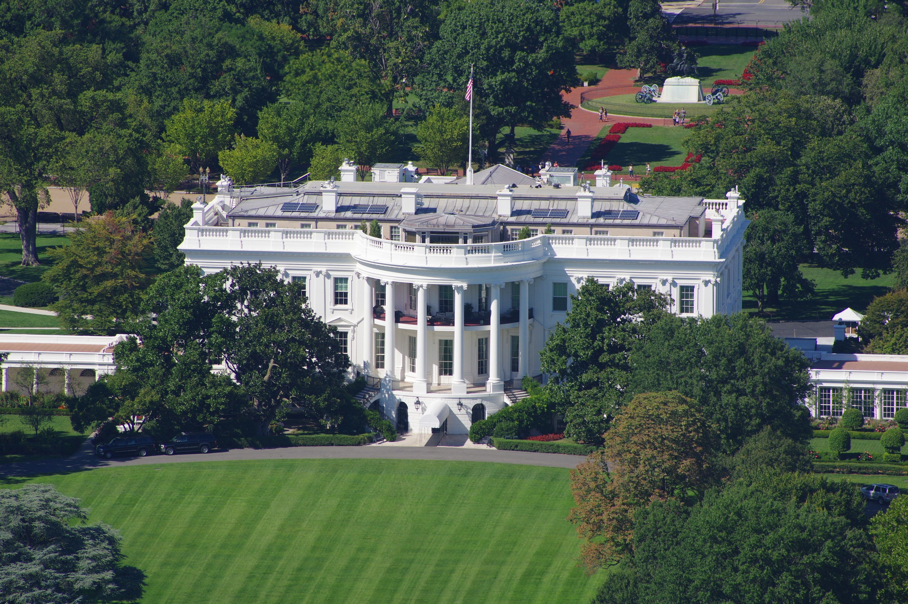 The White House, Washington, D.C.